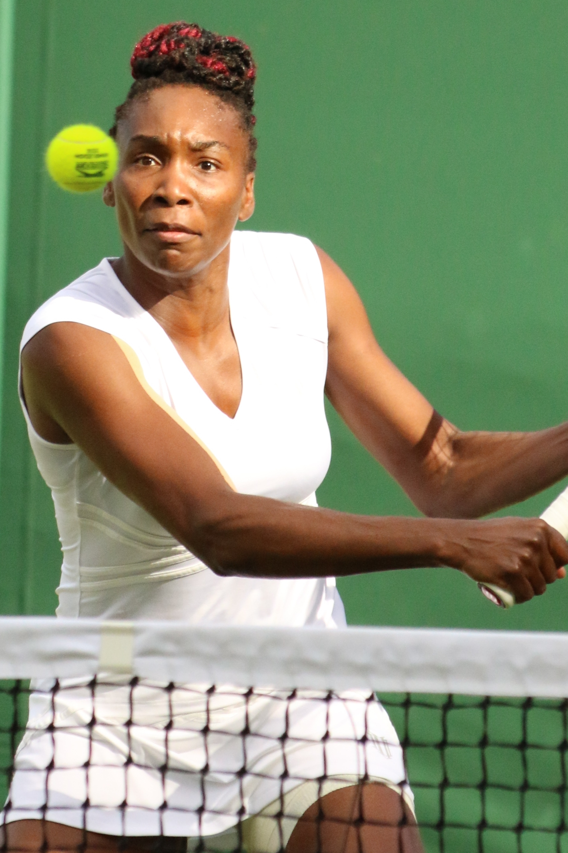 Williams V. WM16 (25)